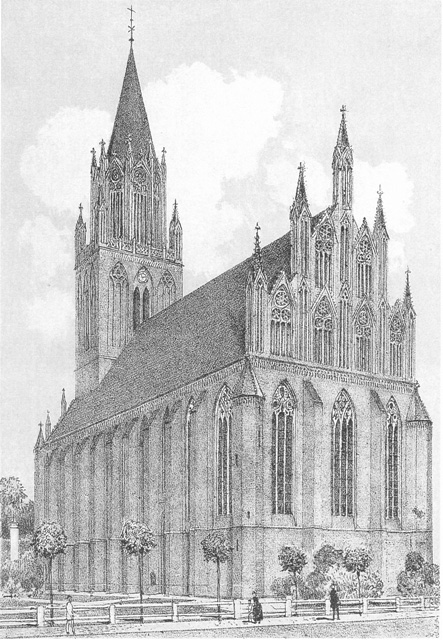 The St. Mary's Church (Marienkirche) in the German town Neubrandenburg, Mecklenburg.